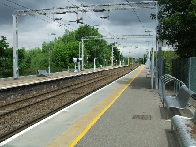 Sawbridgeworth railway station, near to Sawbridgeworth, Hertfordshire, Great Britain. Looking north, up the line towards Bishops Stortford.